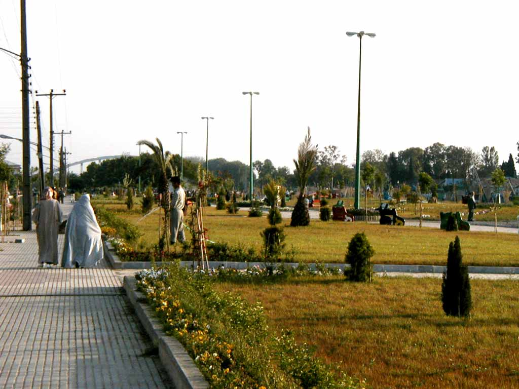 New park between the second bridge and Khazar Sea